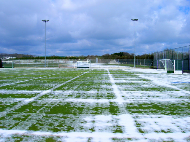 All Weather Pitch, University of Sussex. The eastern end of the astro turf pitch at Falmer Sports Complex.